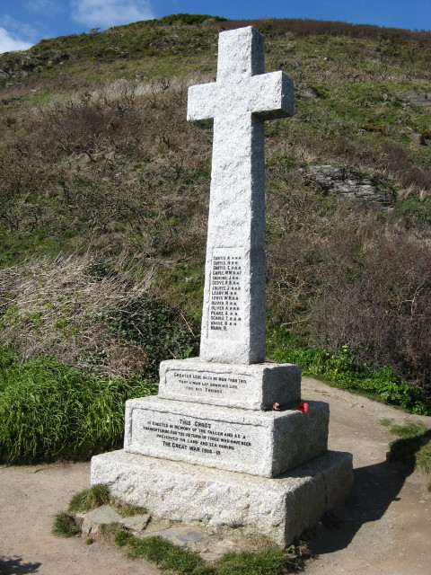 Polperro: war memorial at Downend Point A First World War memorial cross at Downend Point. The main inscription at the bottom reads 'This cross is erected in memory of the fallen and as a thankoffering for the return of those who have been preserved on land and sea during The Great War 1914 - 1918'.